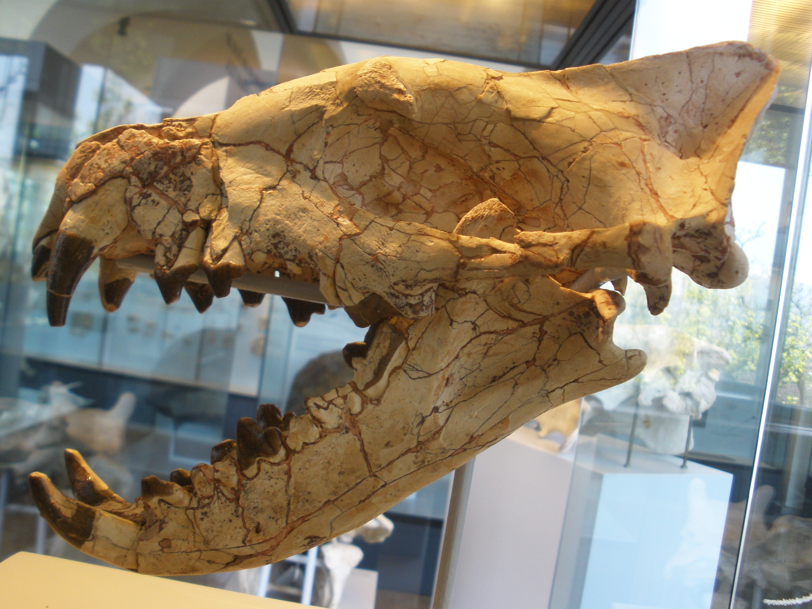 fossil Hyaenodon